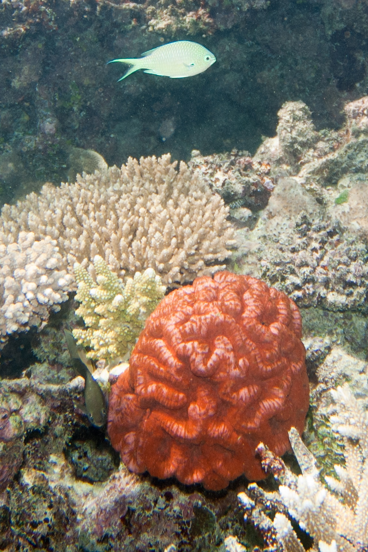 Symphyllia radians has valleys from 20 to 25 millimeters wide. Gregories grow to around 14 centimeters long, and this looks to be about four and a half times as long as it is wide, which would put its width at about 31 millimeters. The valleys look a bit narrower than the fish is wide. Other characteristics are compatible with S. radians. The fish toward the top is a black-axil chromis Chromis atripectoralis.